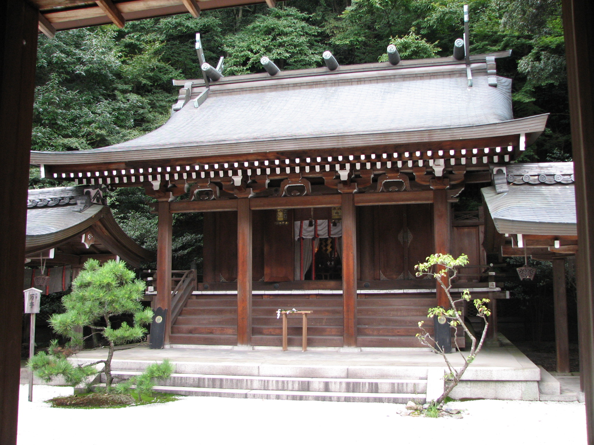 the honden of Ōishi Shrine, Yamashina, Kyōto, Japan 大石神社本殿（京都市山科区）